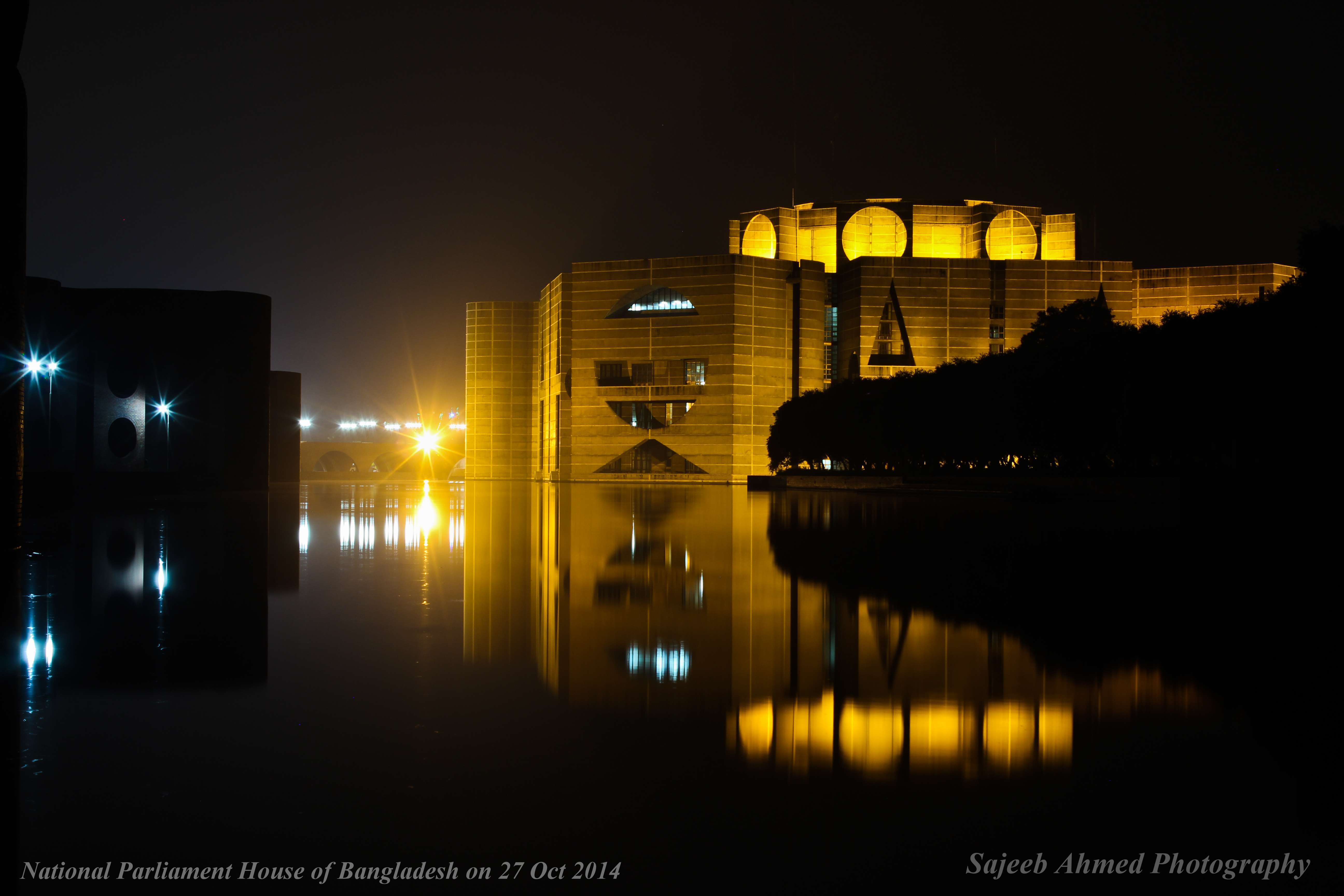 National Parliament House of Bangladesh at night.